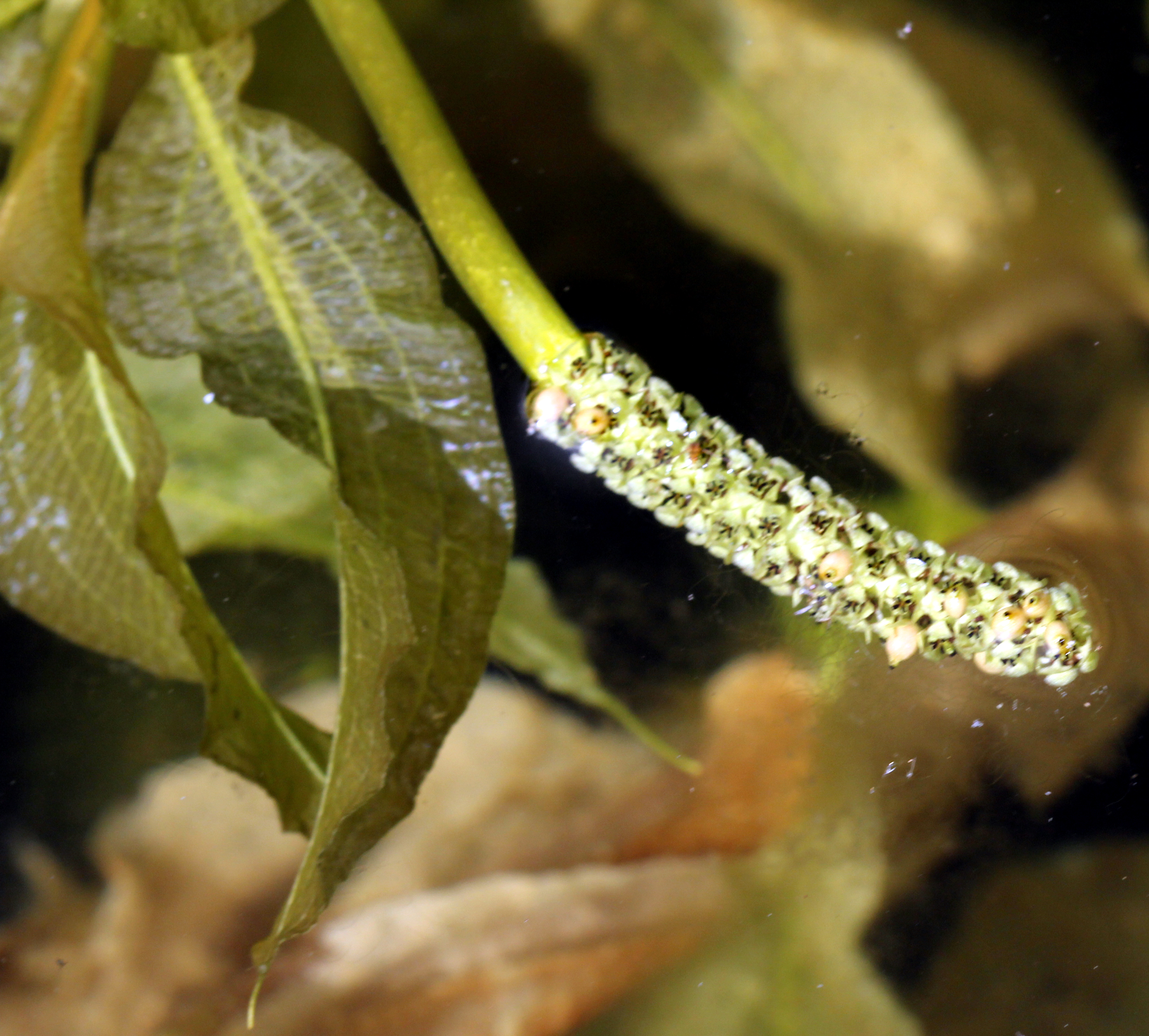 Flower of water plant Potamogeton lucens, (Potamogeton lucens), the Botanical Gardens of Charles University, Prague, Czech Republic